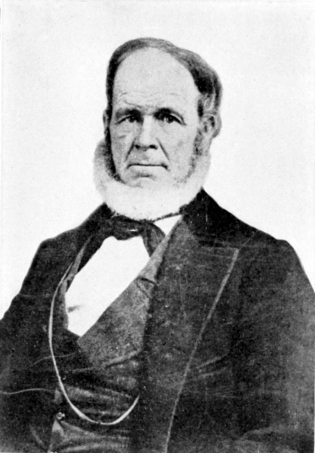 Quaker Farmer who named Fruitvale California